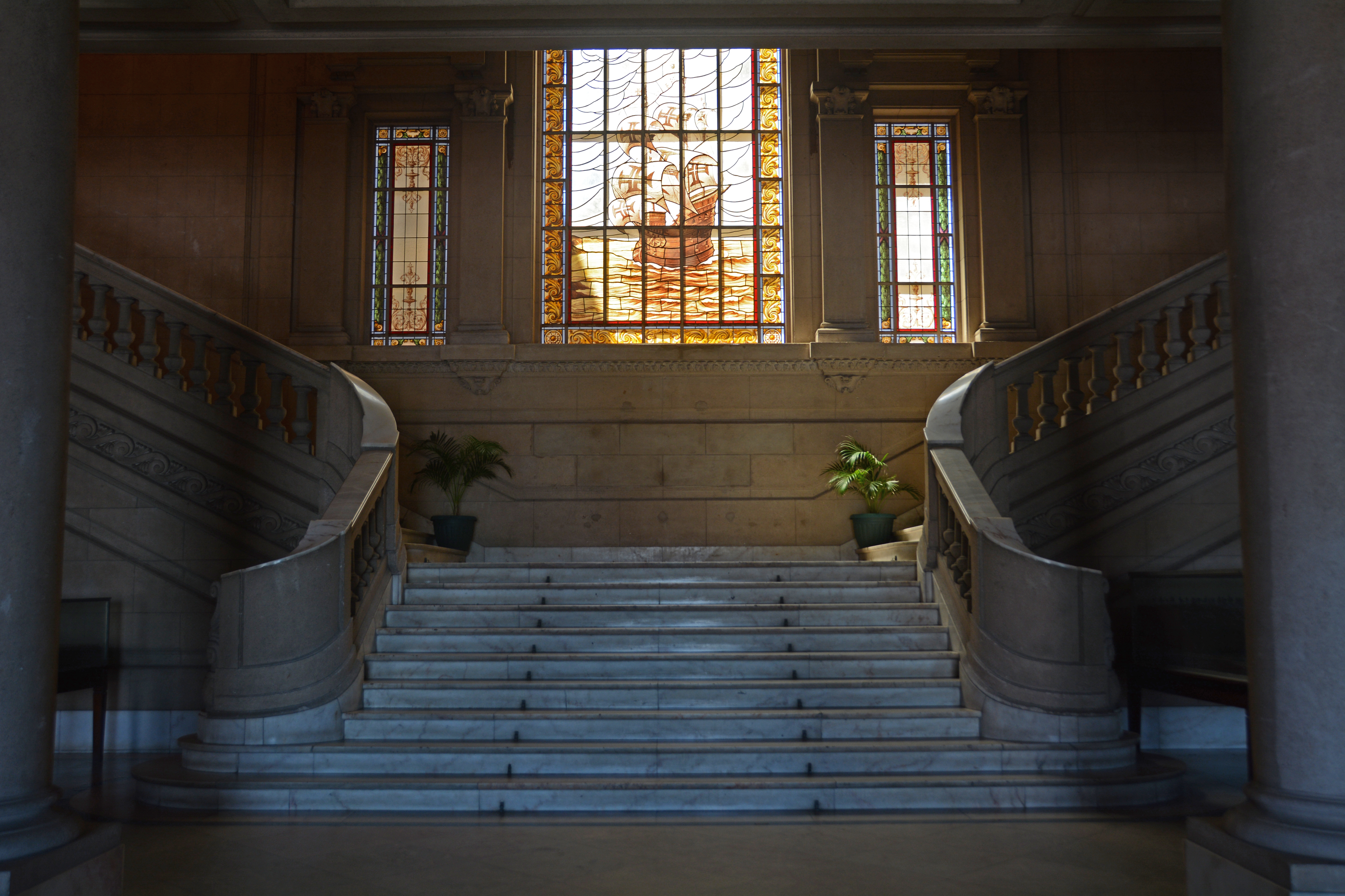 Entrance hall of the town hall of Maputo, Maputo, Mozambique